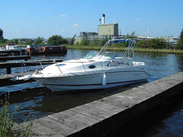 Marina at Rawcliffe Bridge, East Riding of Yorkshire, England.Boats and moorings at Bawcliffe Bridge, on the Aire Calder canal. The Croda chemical works is shown in the background.